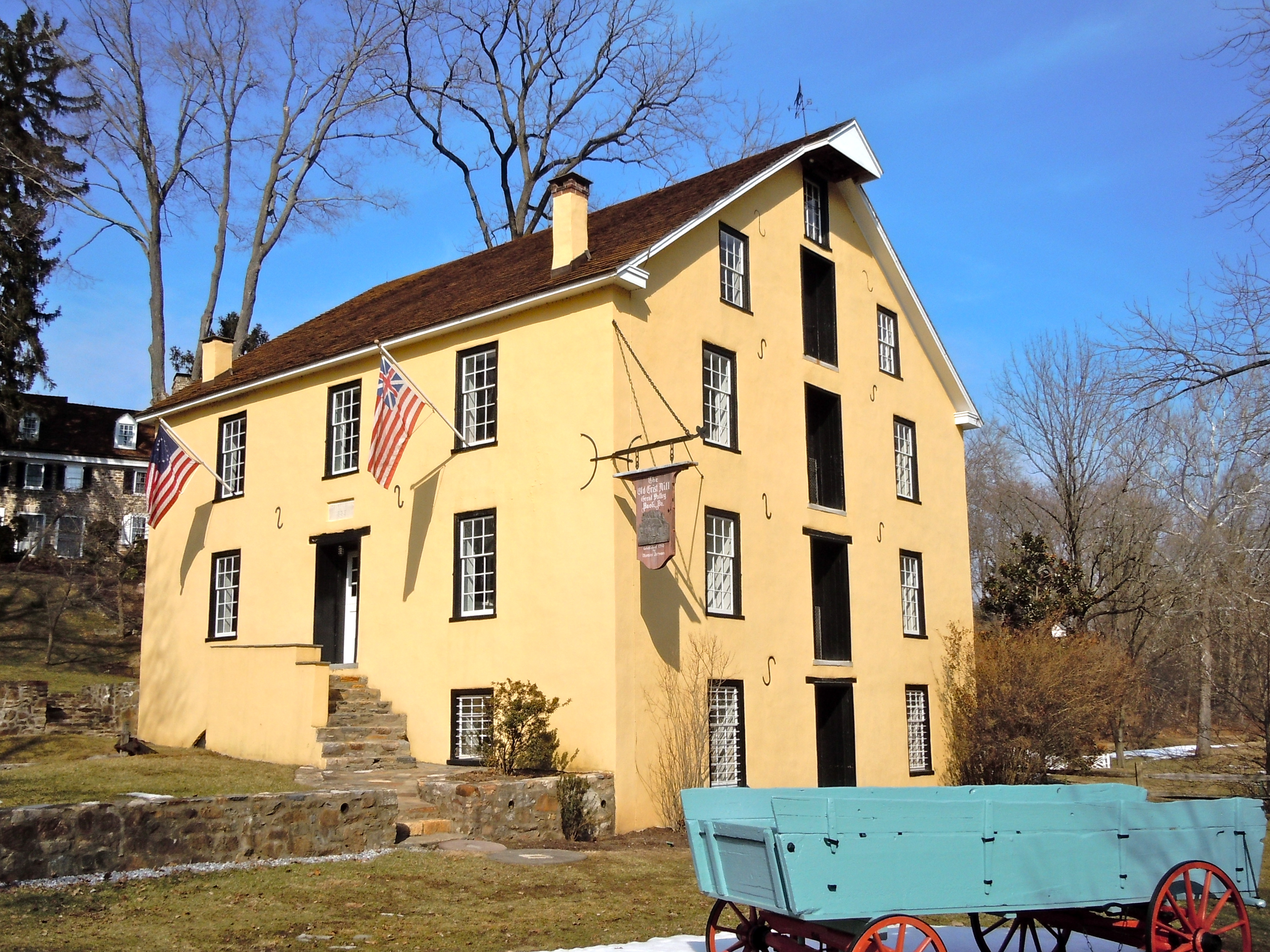 Great Valley Mill on the NRHP since September 1, 1983. At 72 North Valley Road, north of Paoli in Tredyffrin Township, Chester County, Pennsylvania, near Valley Forge. Built 1859 according to the Oliver Evans model. Most equipment still in the mill. Tradition says another mill with the same name was on the site or nearby and provided grain to Washington's troops at Valley Forge.